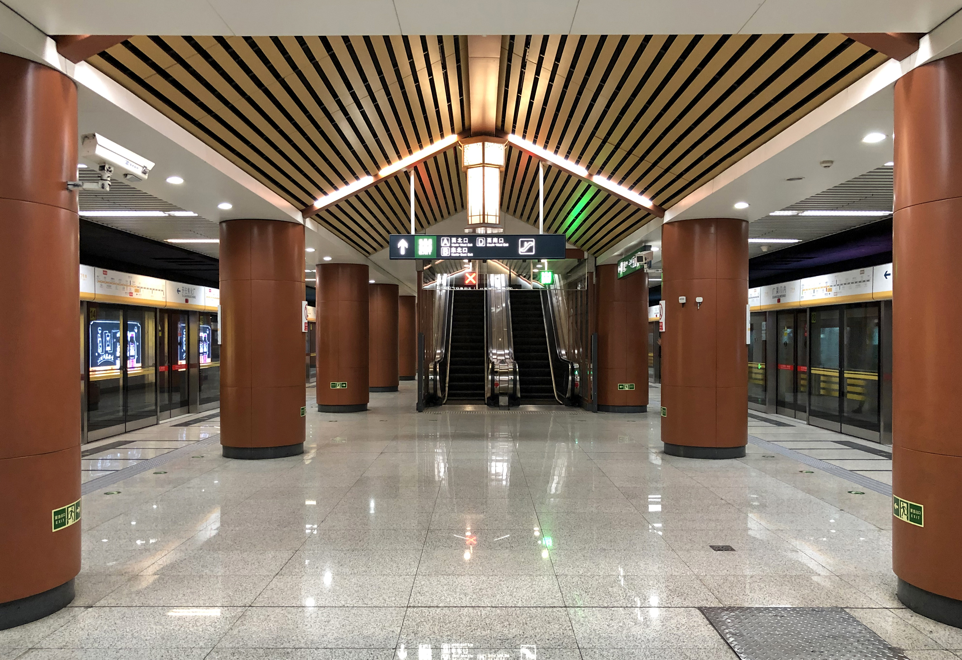 Double dash at Guangqumen...